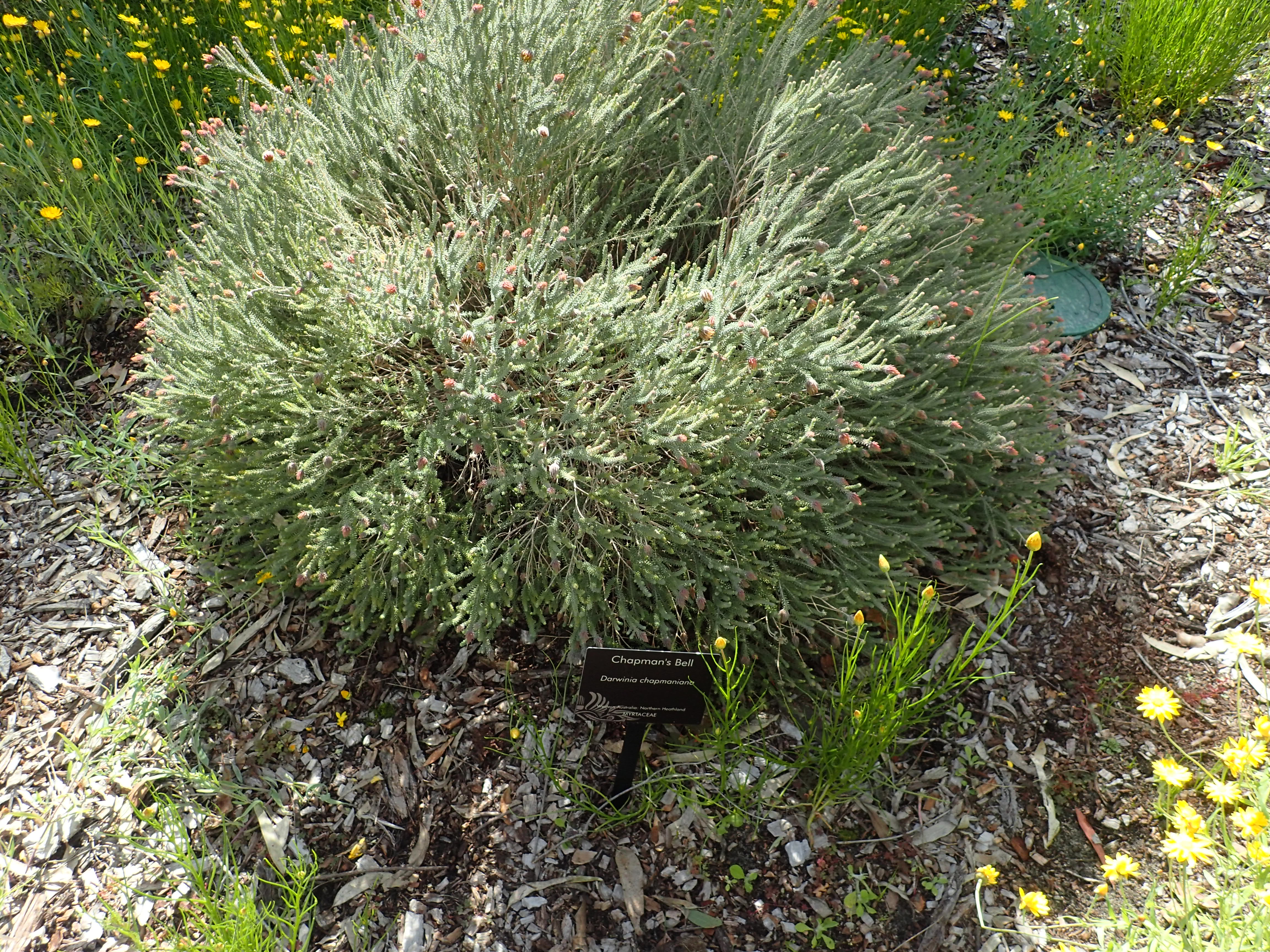 Darwinia chapmanniana growing in Kings Park, Perth